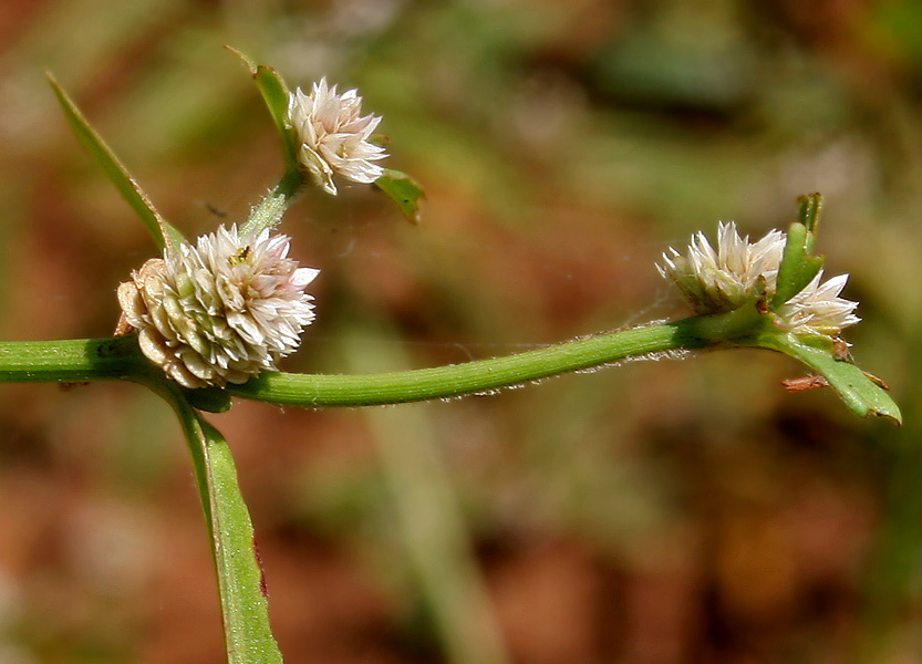 Alternanthera sessilis (L.) DC.- Dwarf copperleaf, Joyweed, Sessile joyweed, Geluti; 'Bechkusal' 'बेचकुसळ' in Marathi- in Herbal Garden, in Rangareddy district of Andhra Pradesh, India.